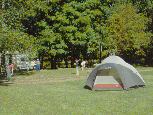 Camping at Ole Bull State Park in Potter County, Pennsylvania, United States